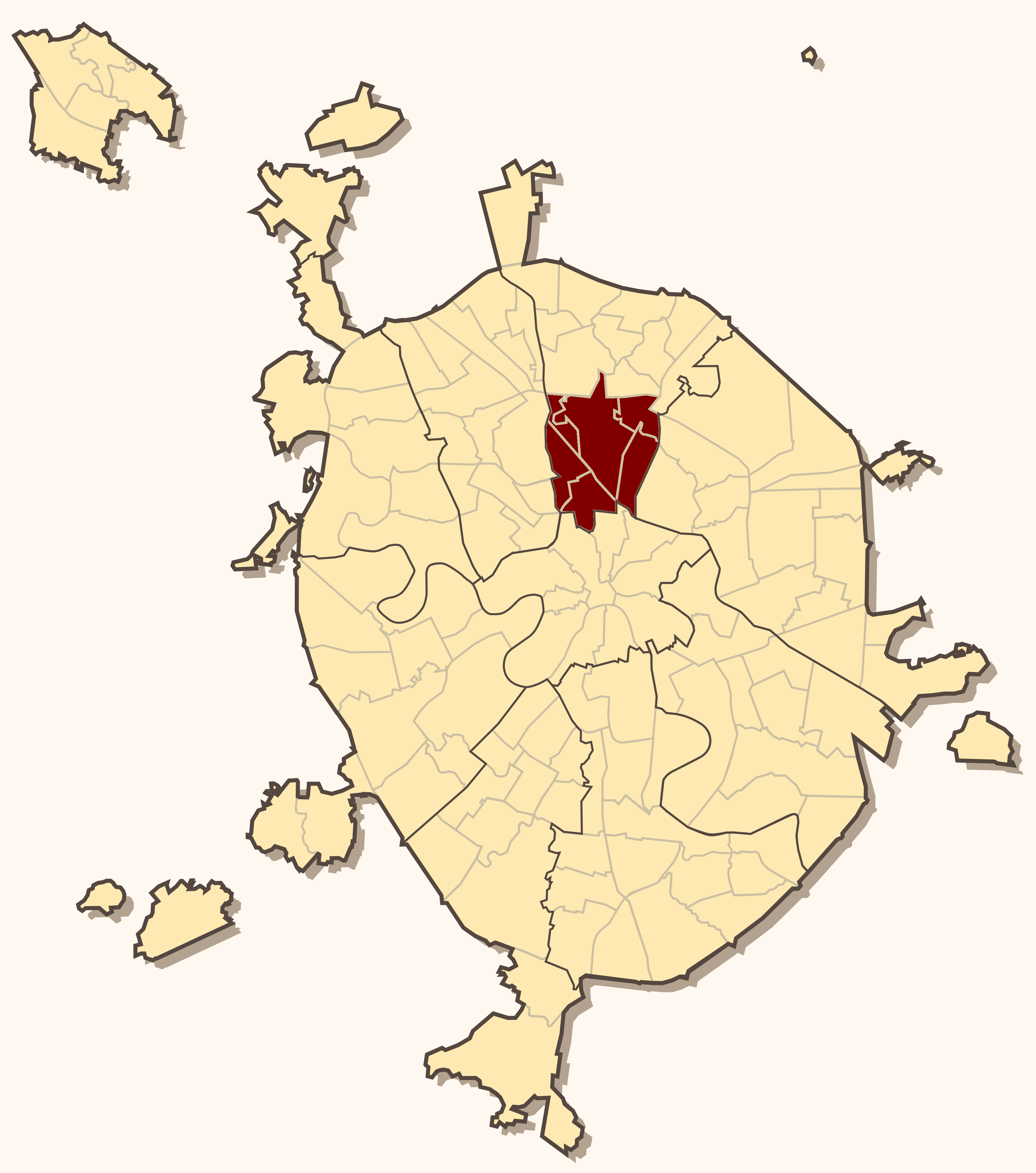 Map of Troitskoe Blagochinie of Moscow